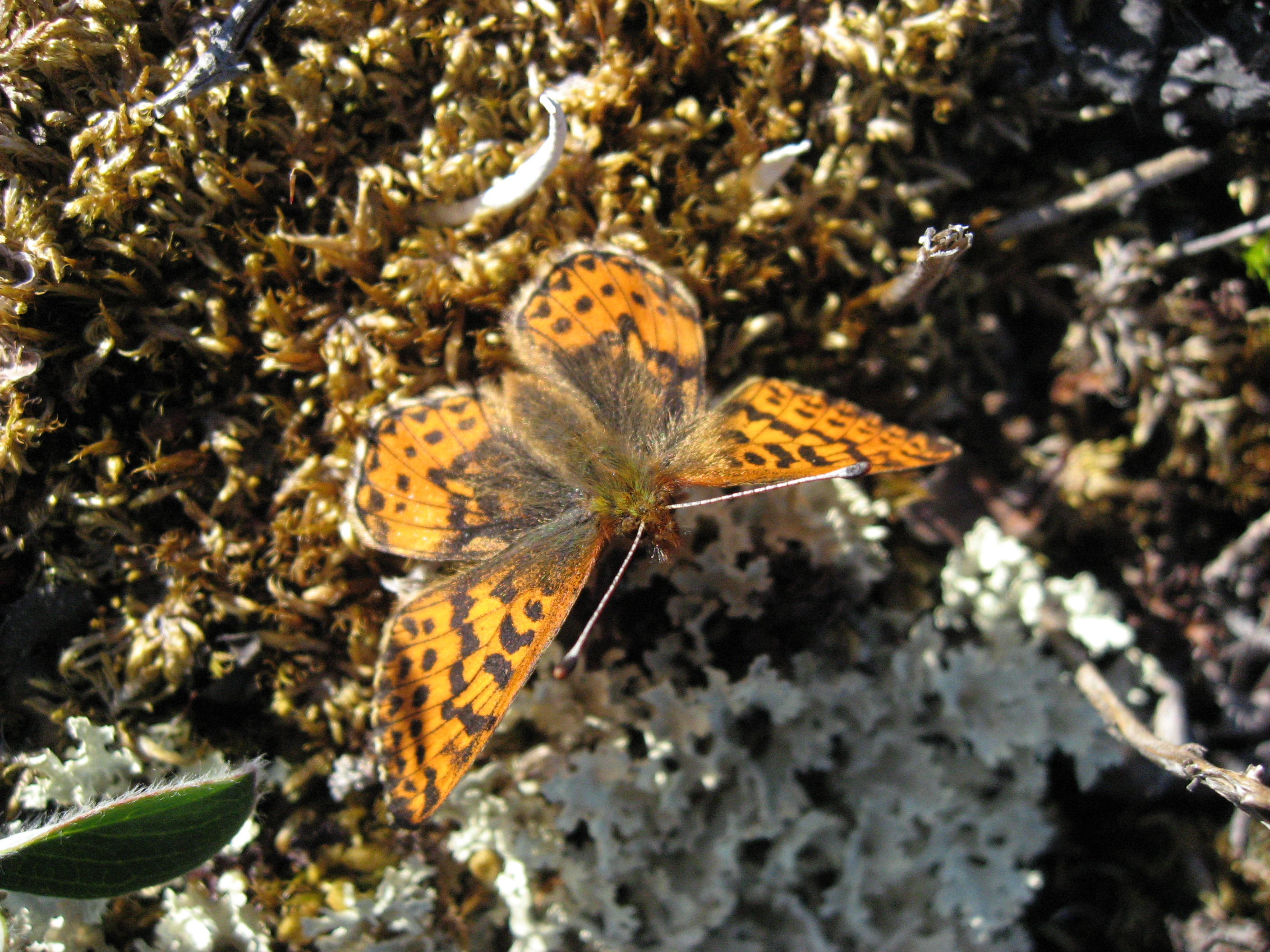 Arctic Fritillary (Boloria chariclea) near Upernavik Kujalleq, Greenland.